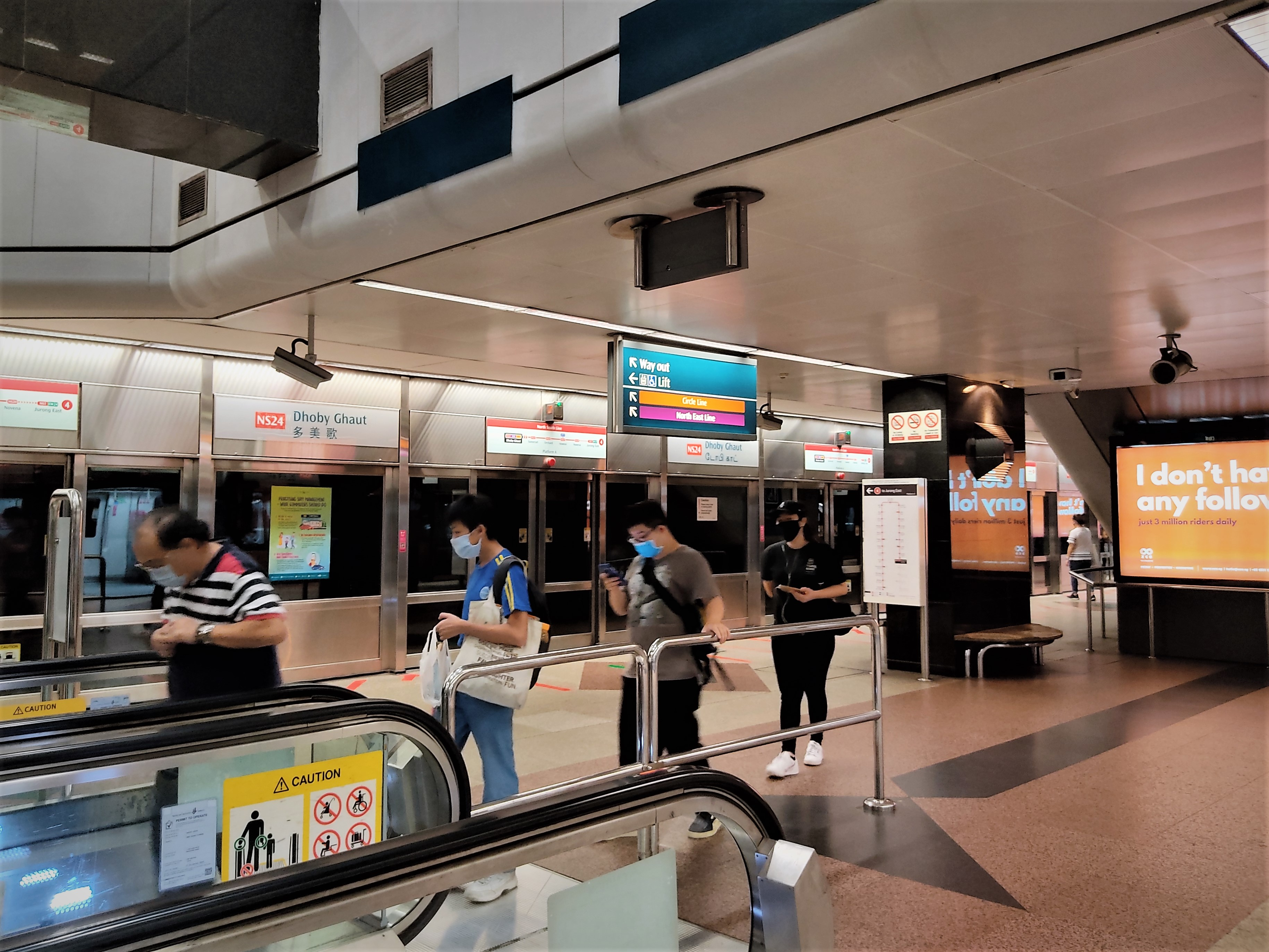 MRT Platform of Dhoby Ghaut